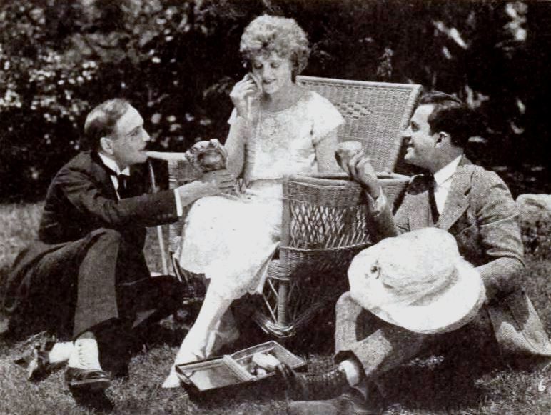 Still from the production of the American drama film The Rage of Paris (1921) with Ramsey Wallace, Miss DuPont (doing her make-up), and Jack Perrin, on page 85 of the September 24, 1921 Exhibitors Herald.